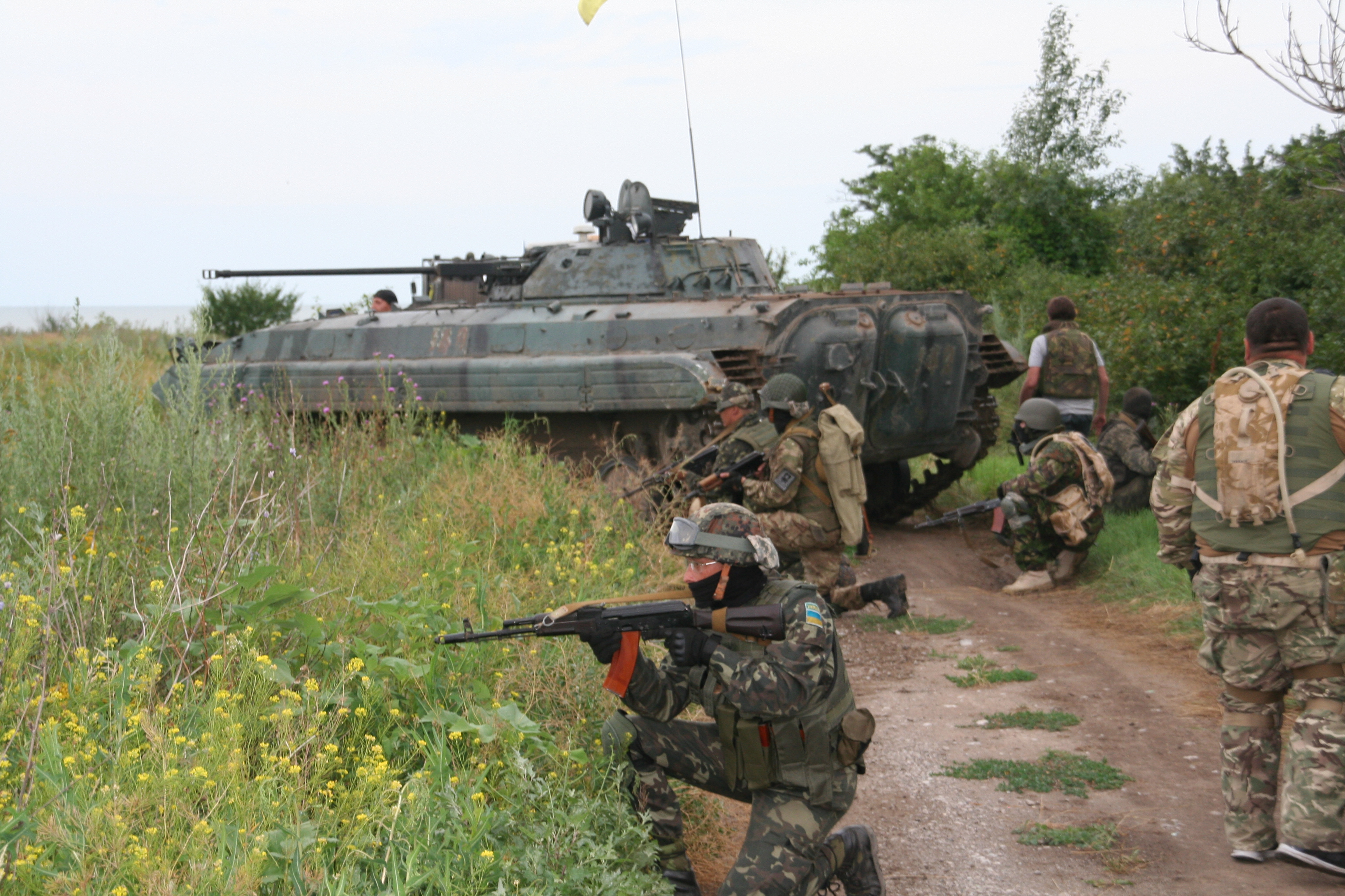 Soldiers from the Azov Battalion take up positions near an infantry fighting vehicle from the National Guard of Ukraine.